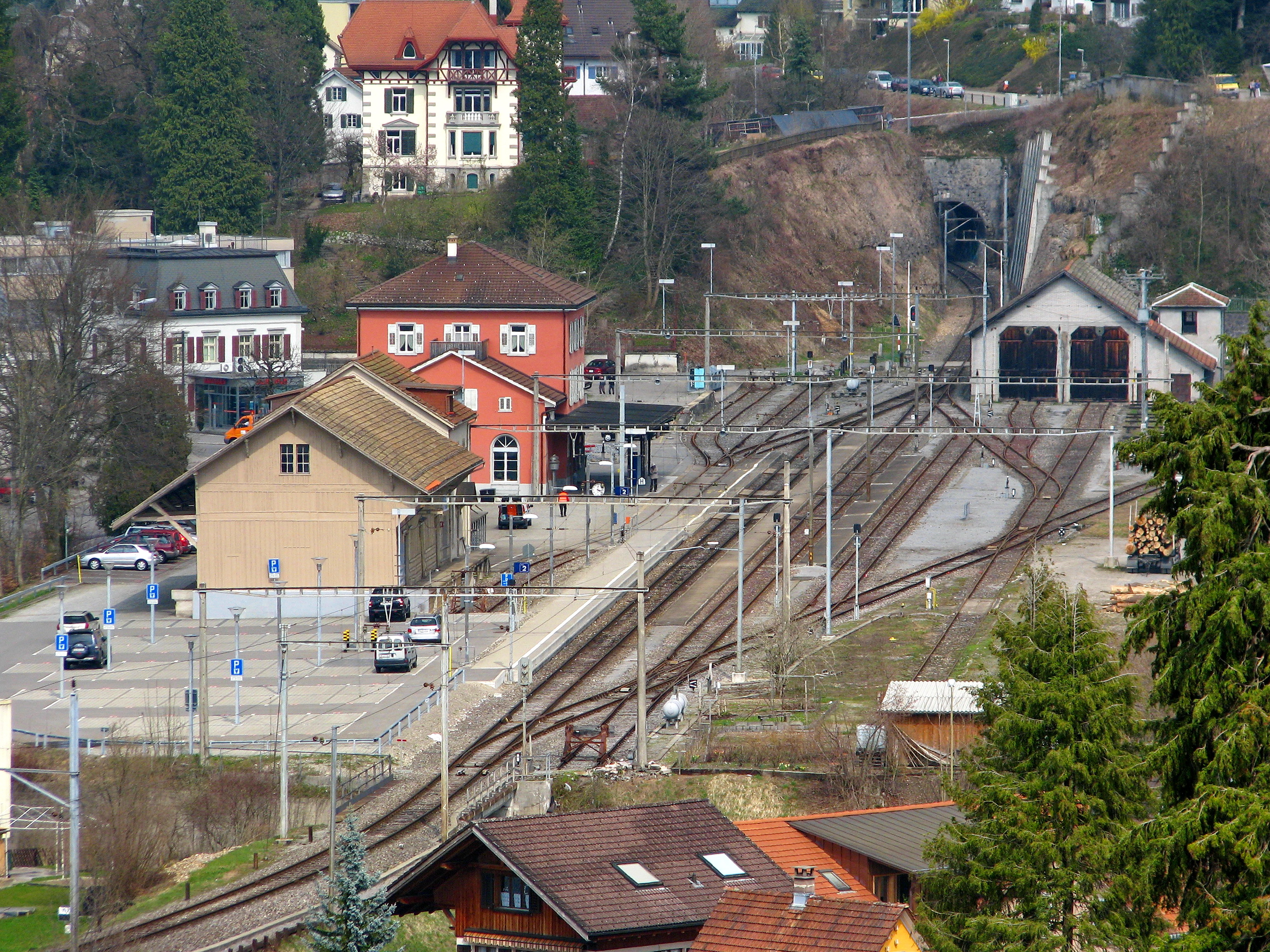 Wald (Switzerland) as seen from nearby Batzberg